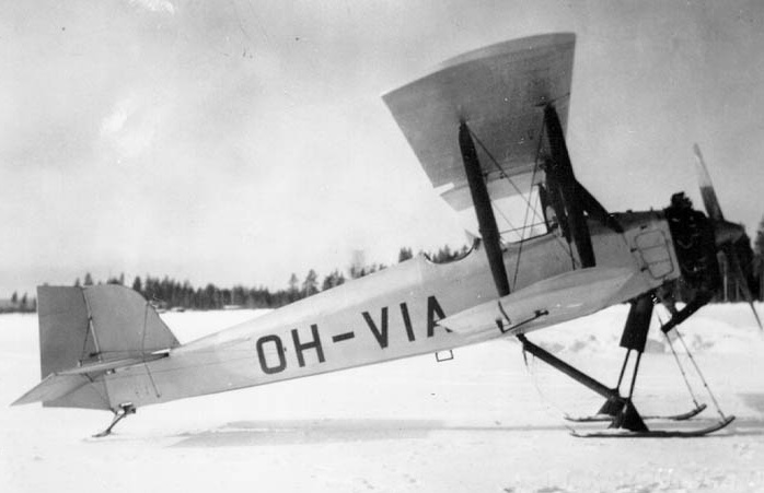 OH-VIA was the longest in use of all the aircraft of the same type. Photo from the Finnish Air Force Museum's collection.